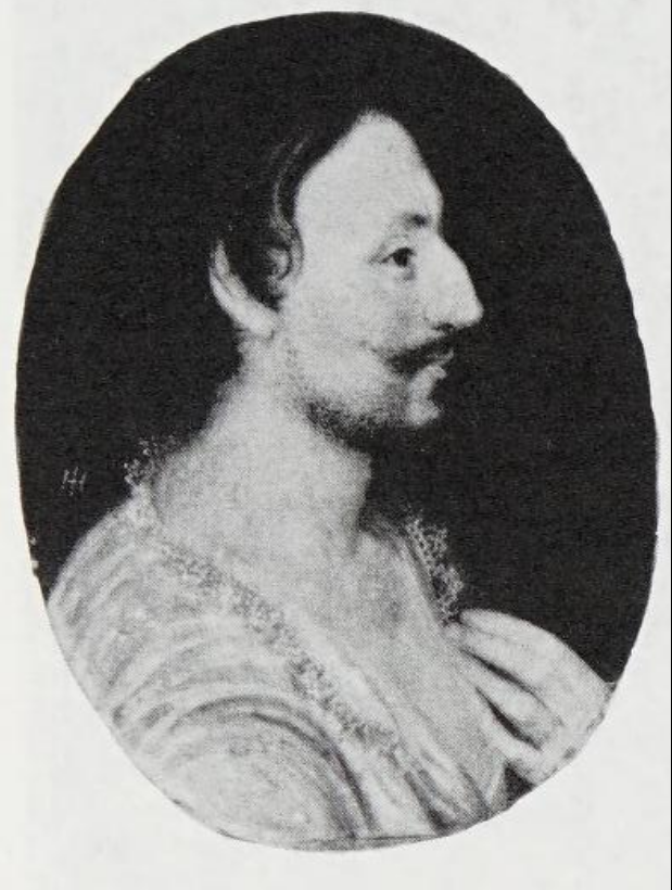 Miniature of poet and politician John Hoskins (1566-1638), by the miniaturist of the same name John Hoskins (d. 1664). Whitlock writes: "This professional portrait gives us a sense of strength and vitality [in Hoskins], but it flatters John in a way that his own self portrait does not." (p. 534)